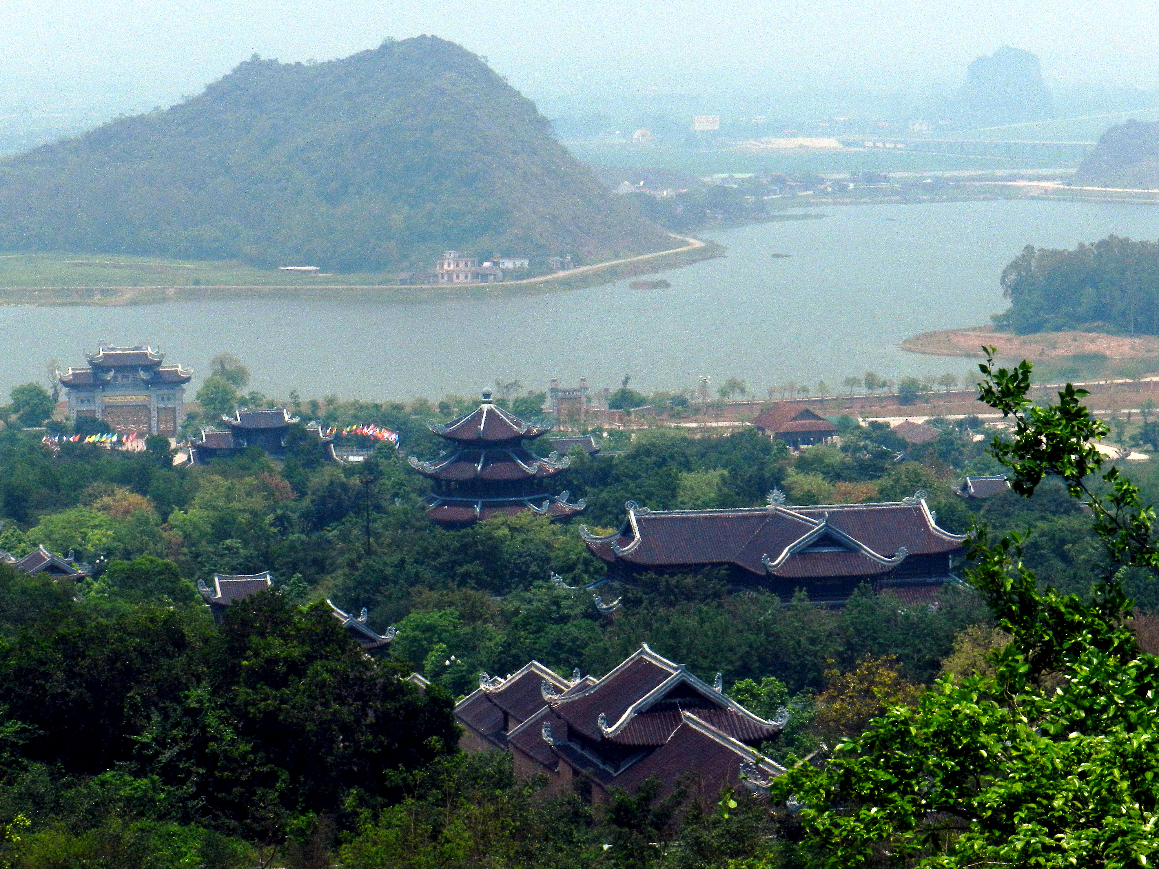 General view of the Bai Dinh complex, Vietnam